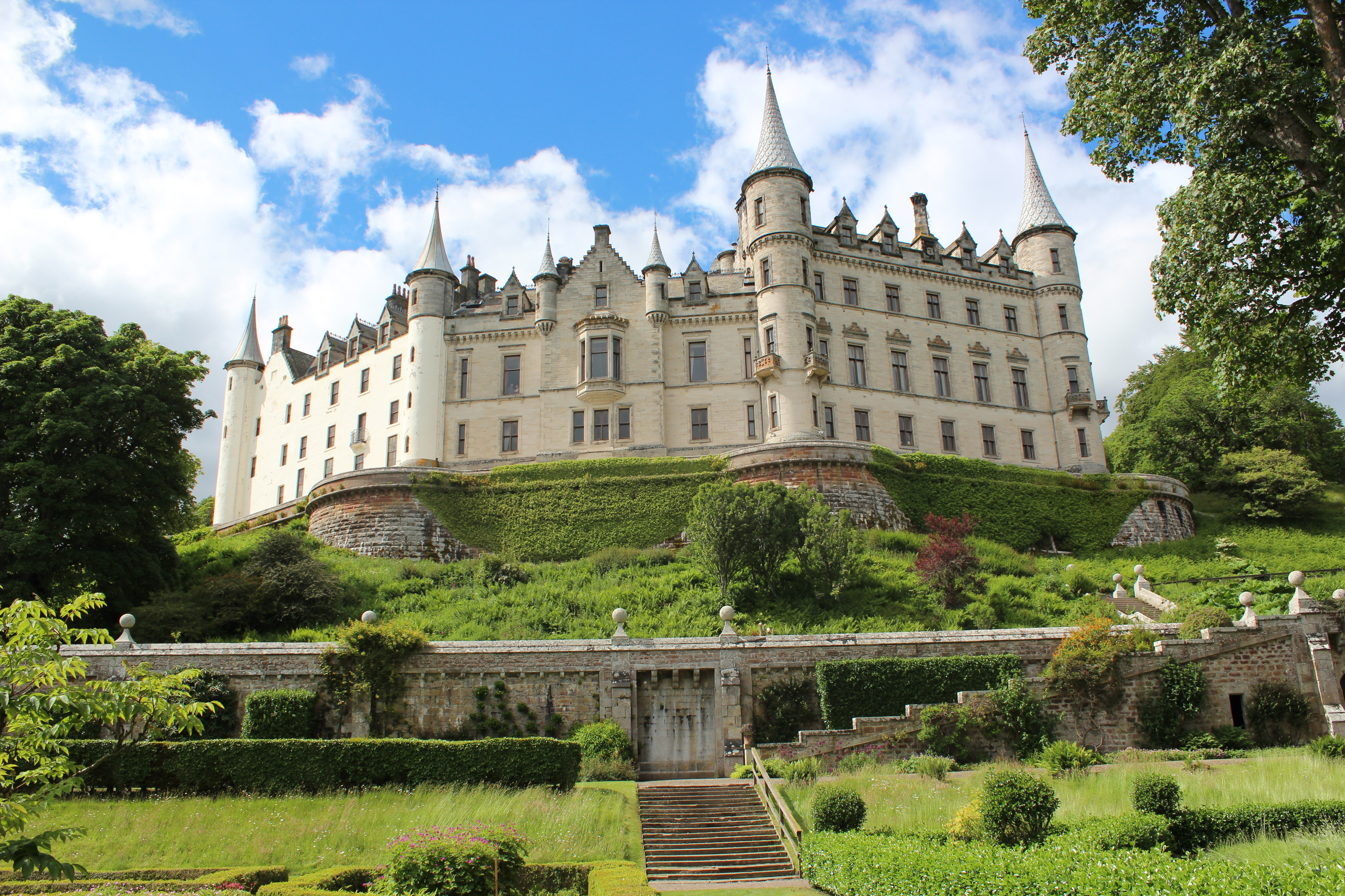 Dunrobin Castle in Scotland